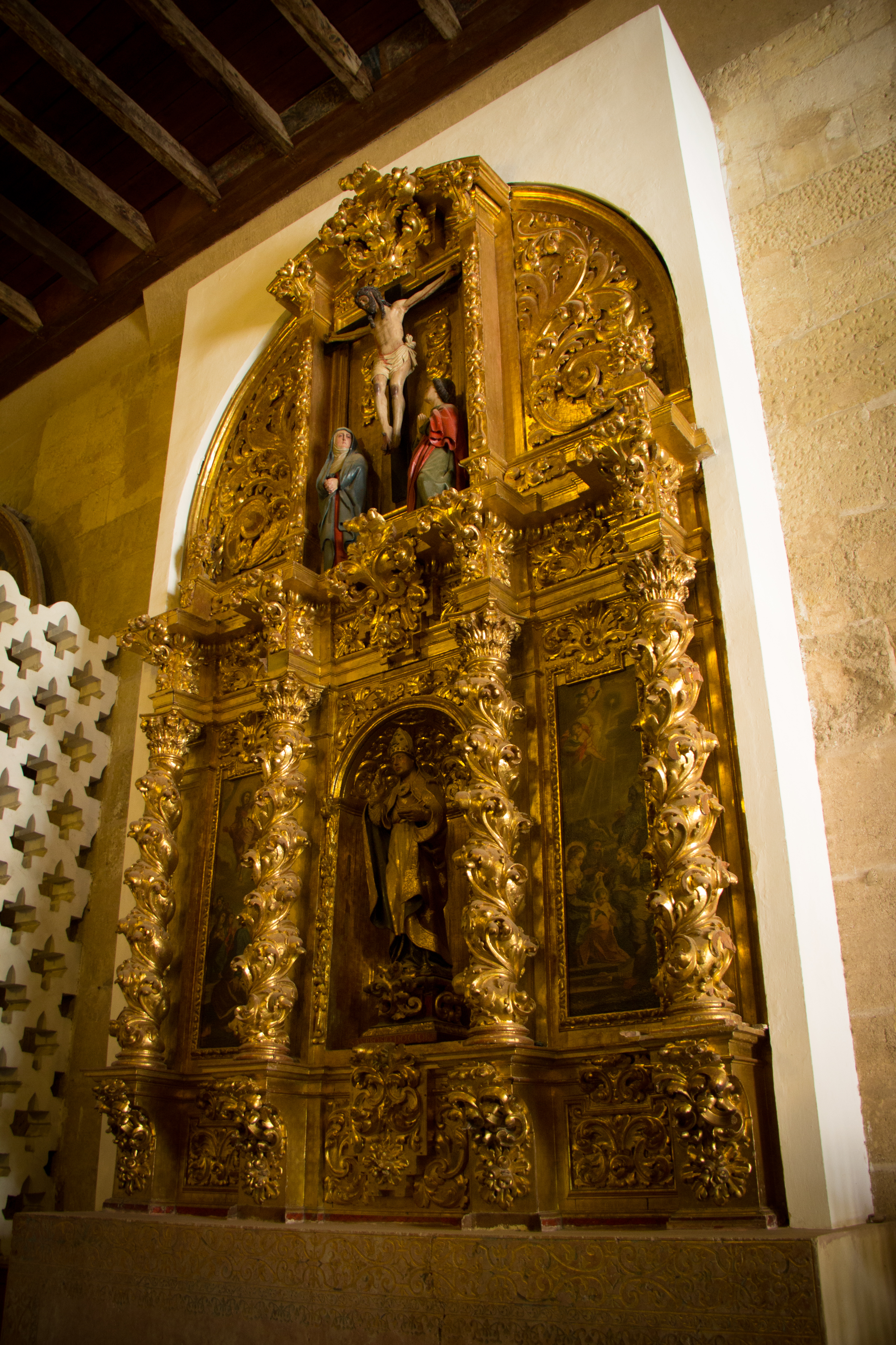 Córdoba, Spain.